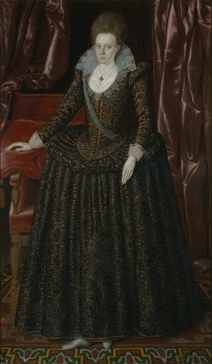 Lady Arbella Stuart, cousin of King James I of England